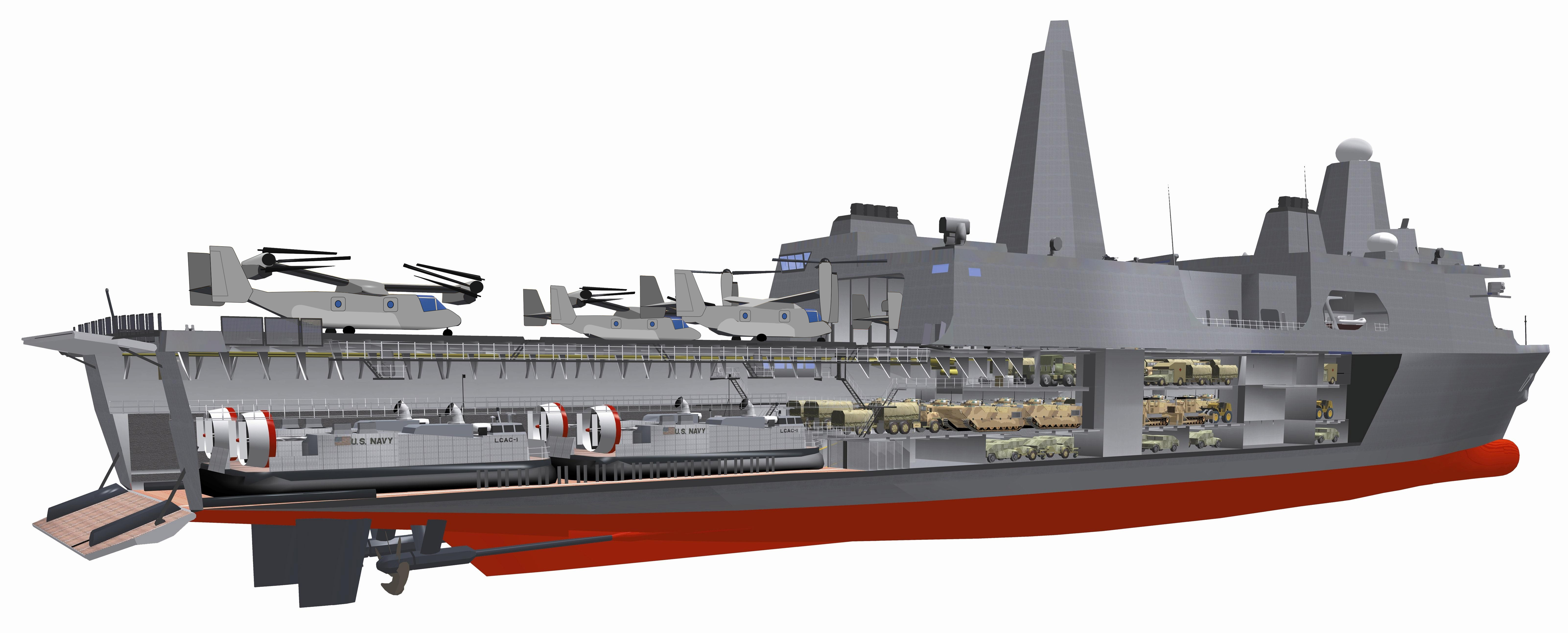 Cutaway illustration of the U.S. Navy's San Antonio-class amphibious transport dock ship (LPD). The amphibious transports are used to transport and land Marines, their equipment, and supplies by embarked air cushion or conventional landing craft or amphibious vehicles, augmented by helicopters or vertical take off and landing aircraft in amphibious assault, special operations, or expeditionary warfare missions.